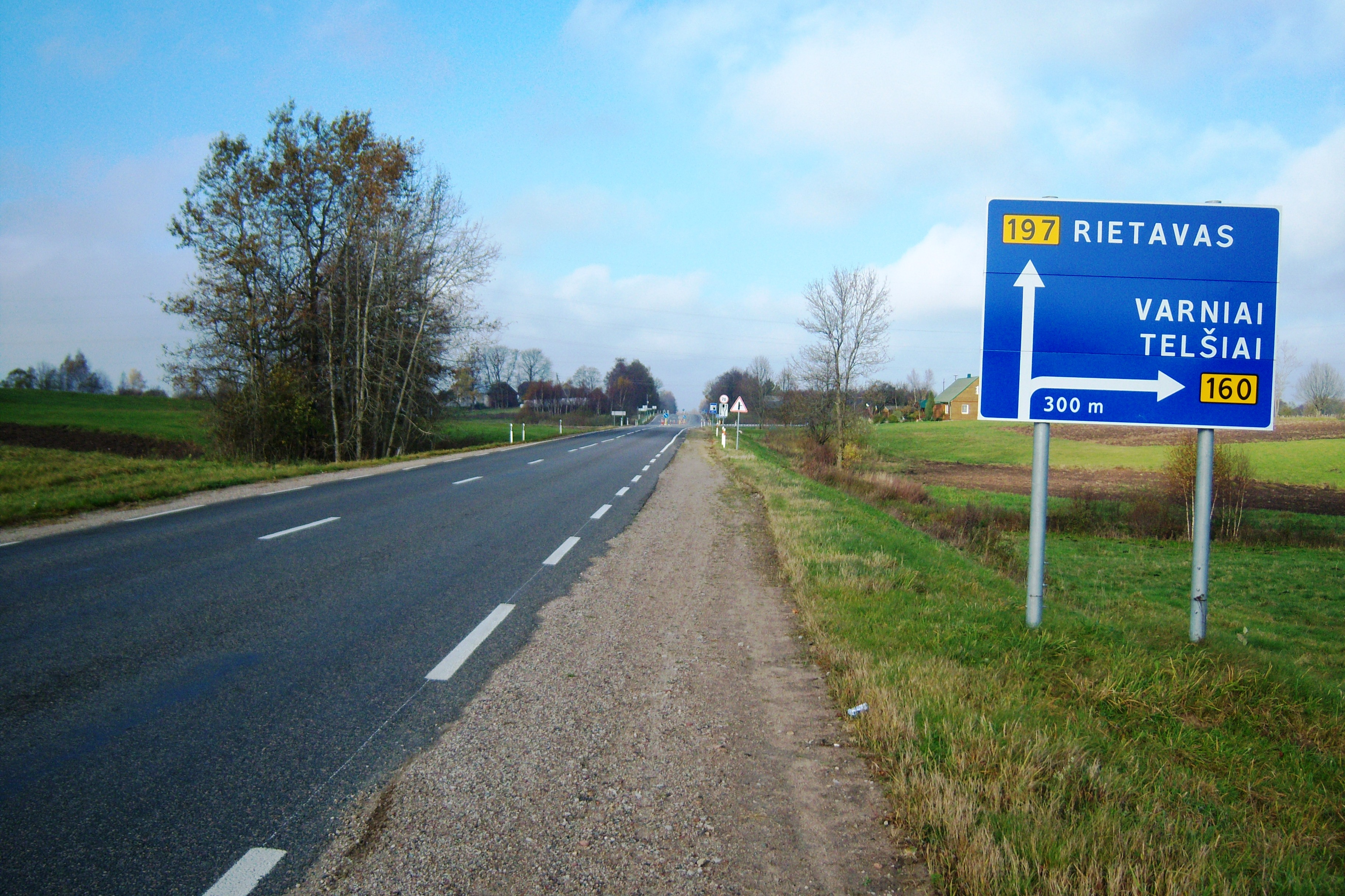 Road KK197. Old Samogitian road, near Laukuva, Lithuania